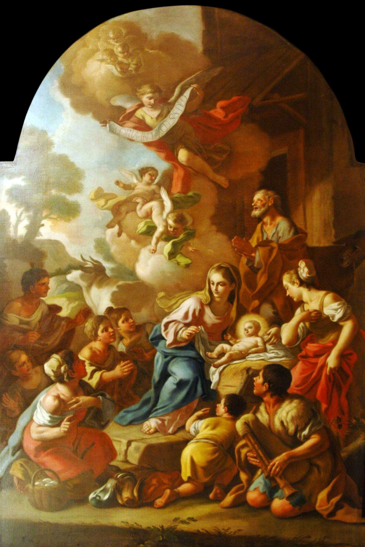 The Adoration of the Shepherds